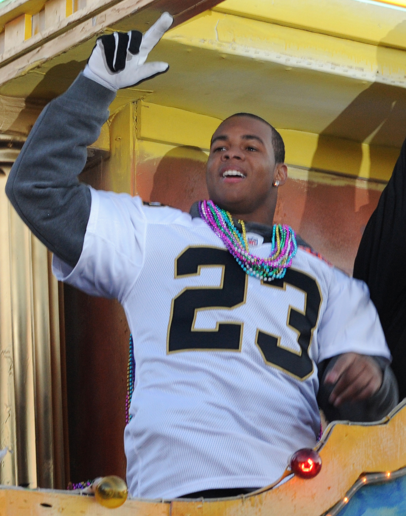 February 9, 2010